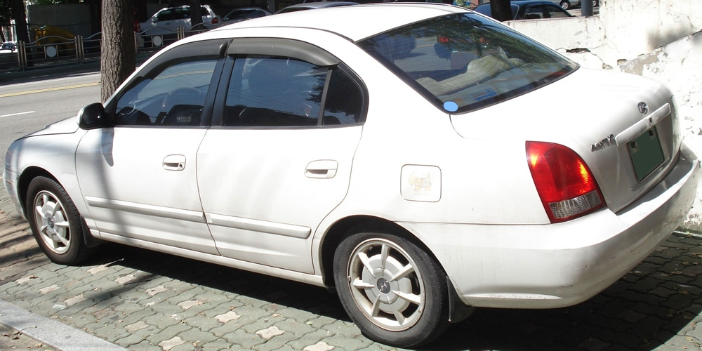 Hyundai Avante XD